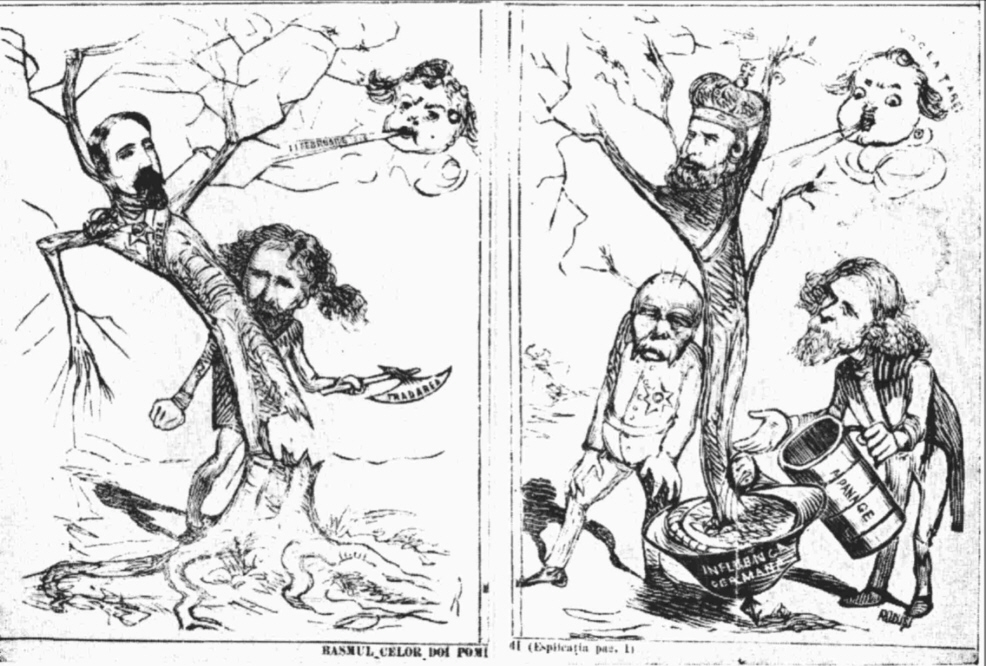 Romanian cartoon published in Ghimpele magazine